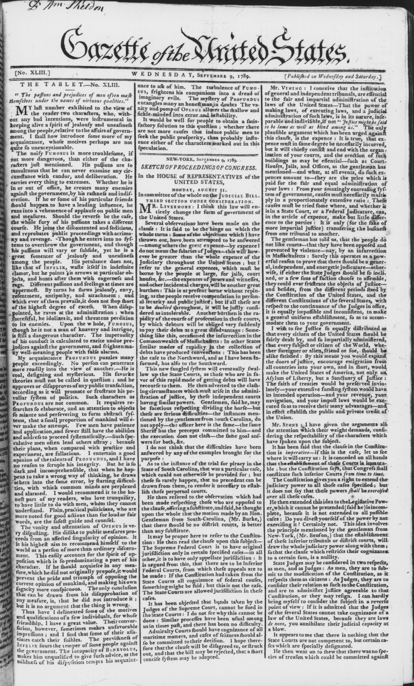 Gazette of the United States, No. XLIII